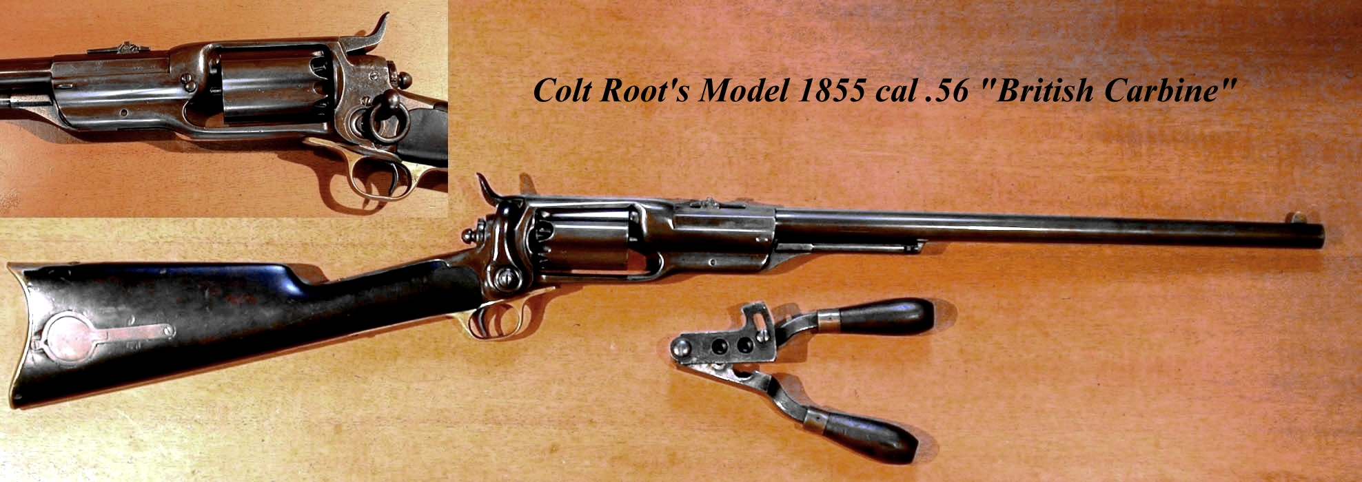 Colt Model 1855 Carbine .56 caliber